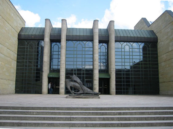 Front of Neue Pinakothek, Munich/Germany with sculpture by Marino Marini